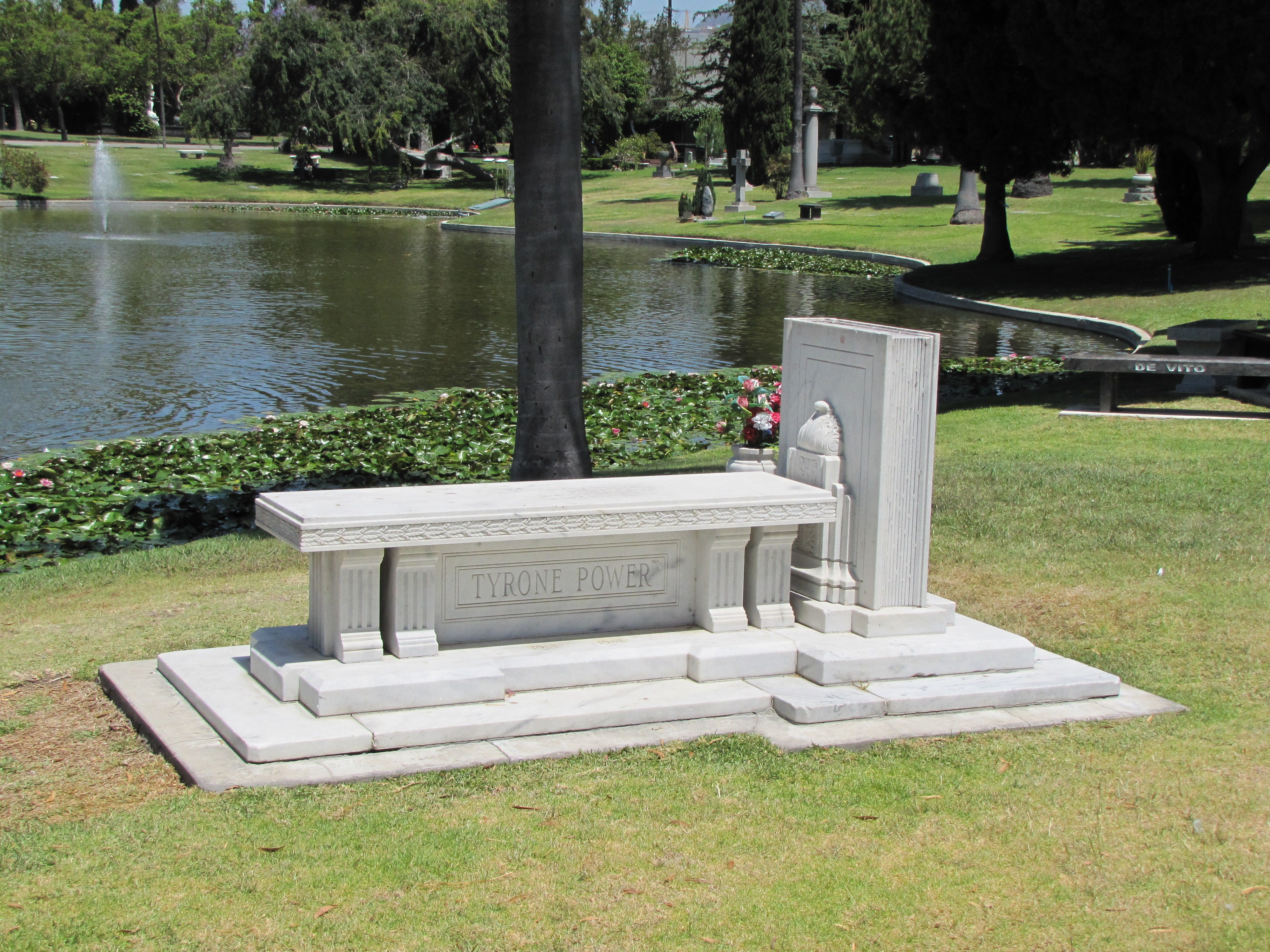 Grave of Tyrone Power, Hollywood Forver Cemetery, May 2012